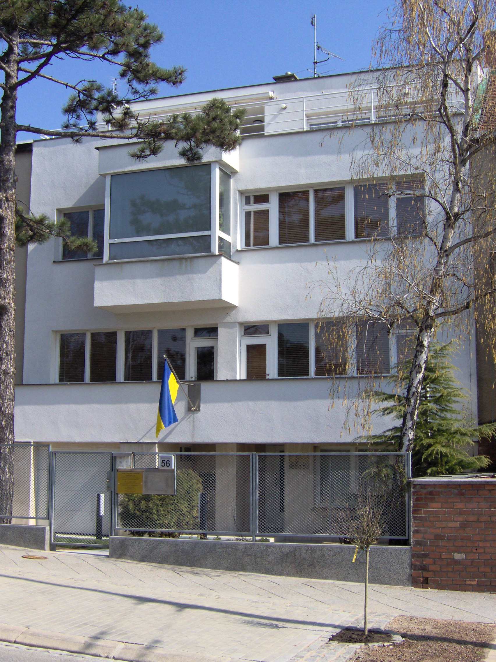 Consulate of Ukraine, Brno, Czech Republic